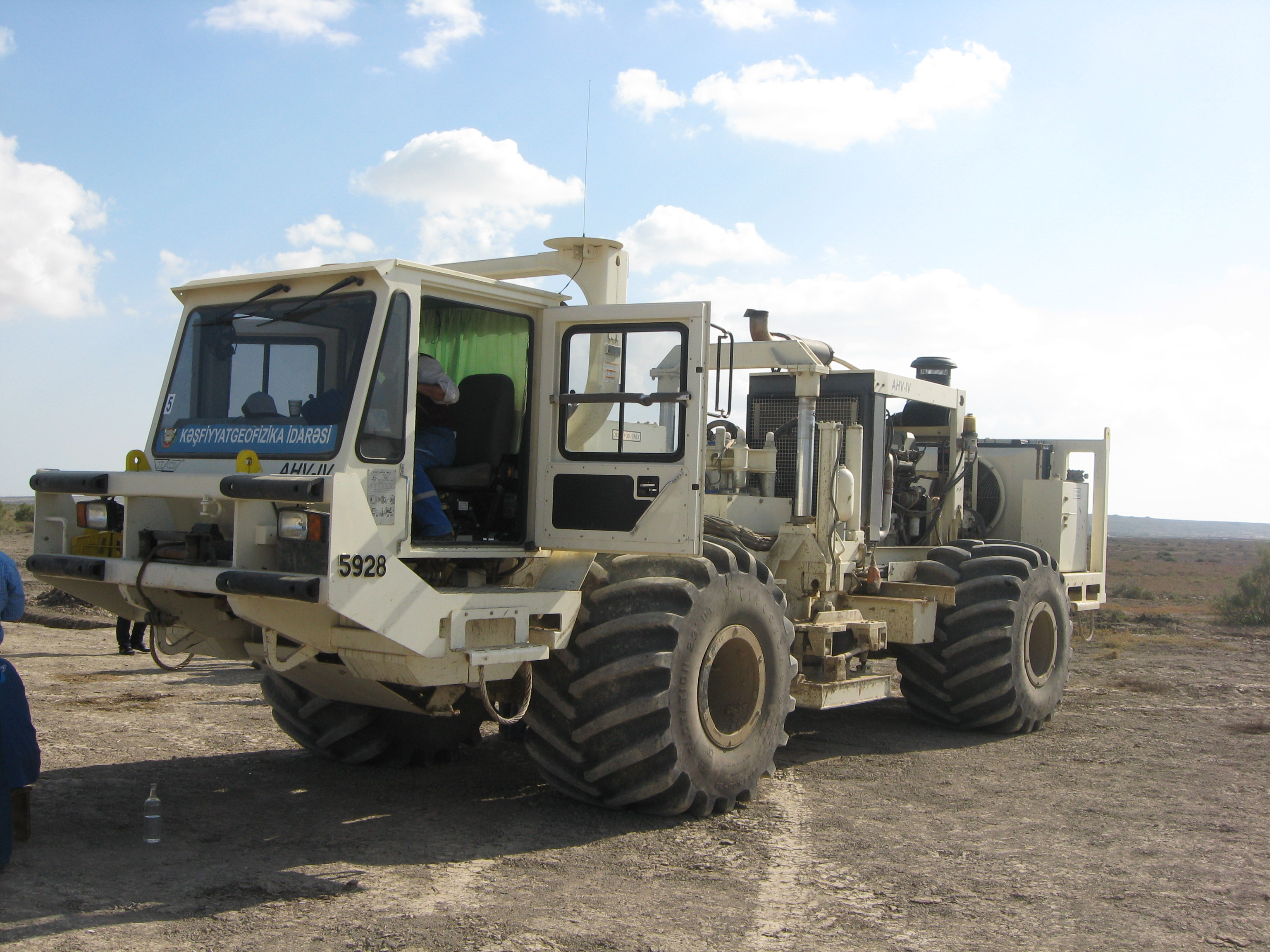 Vibroseis operation track in Azerbaijan (Galmaz village)